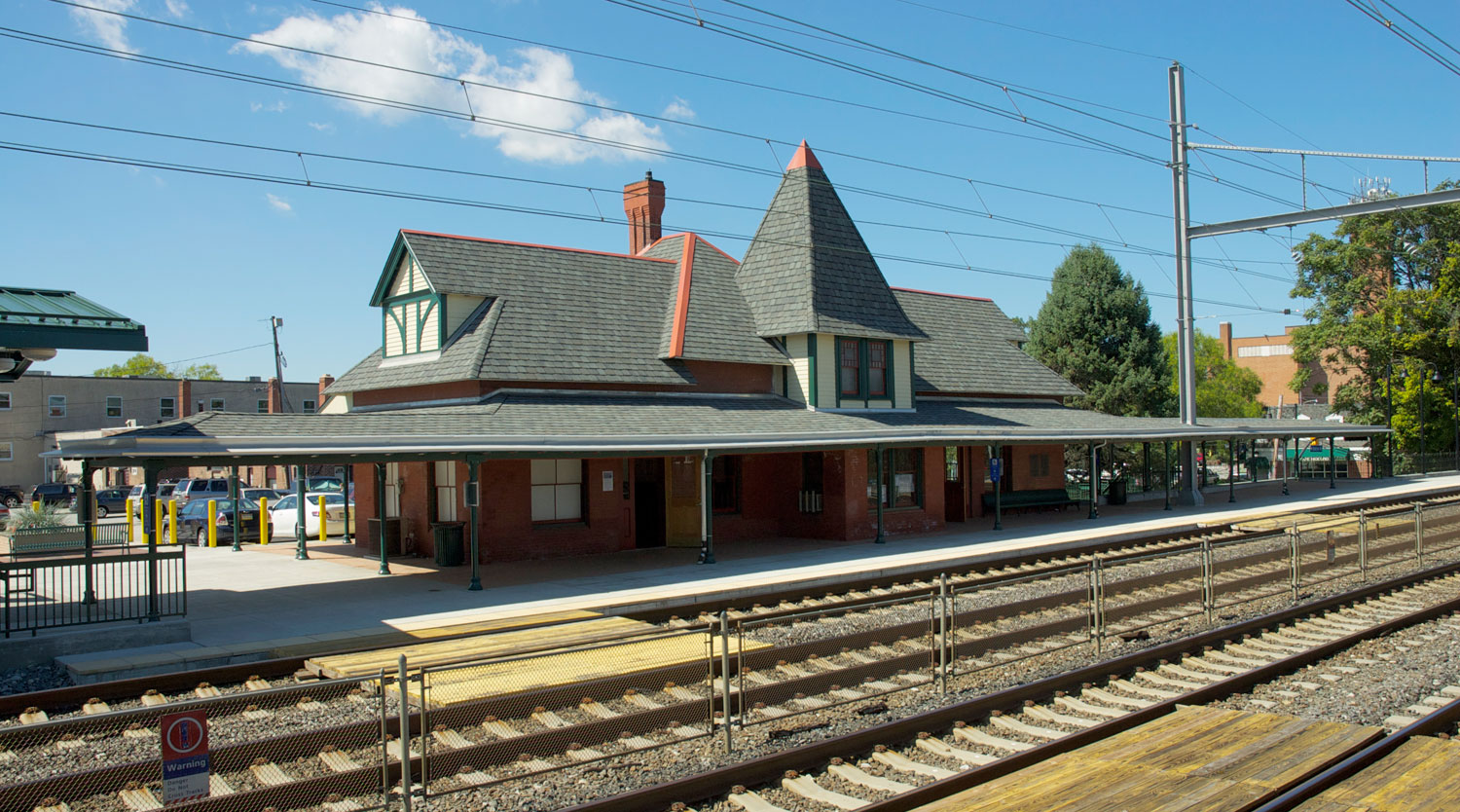 The north façade of Wayne Station on SEPTA's Paoli/Thorndale line. The station is shown immediately following extensive renovations in the late summer of 2010.